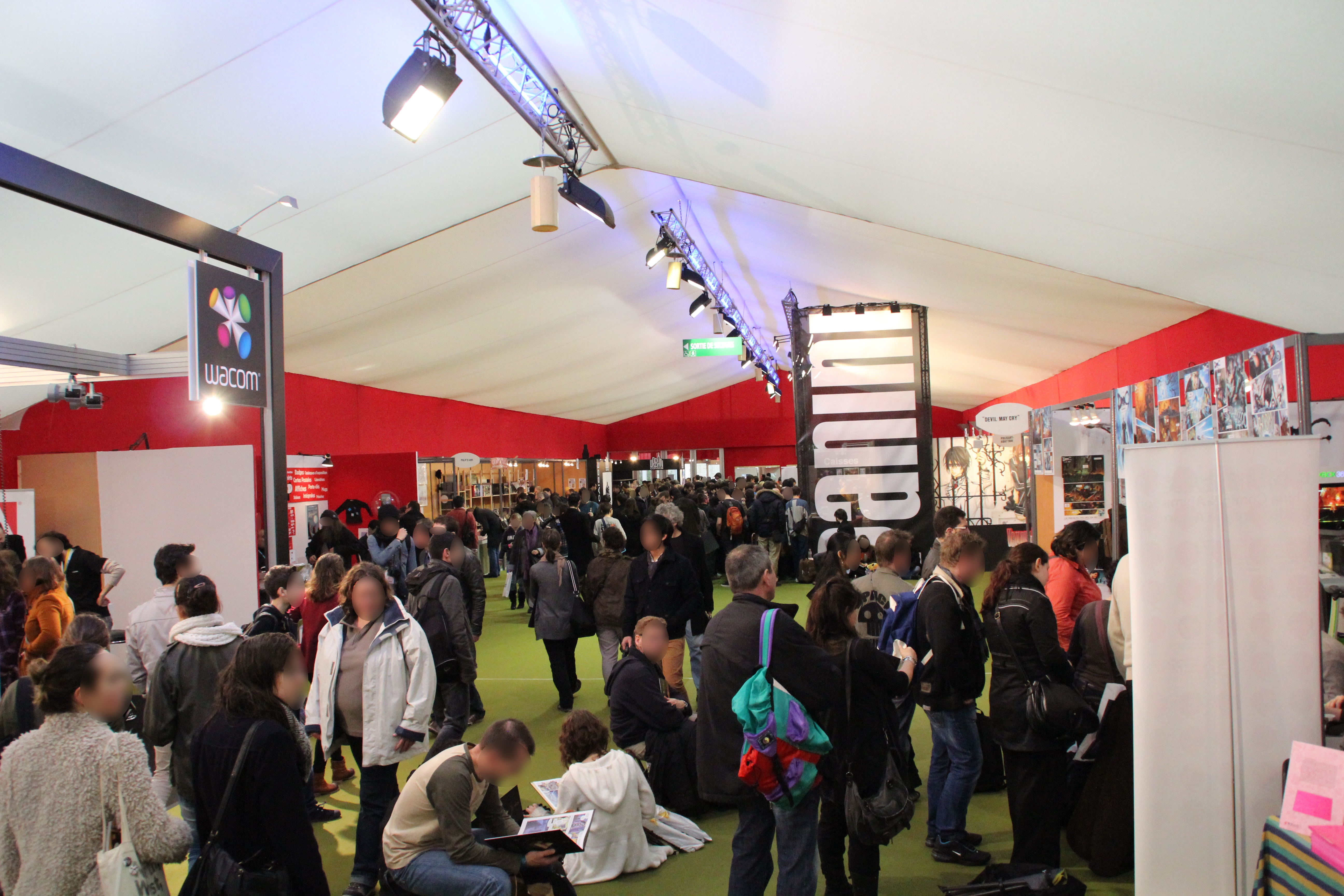 Angoulême International Comics Festival 2013.